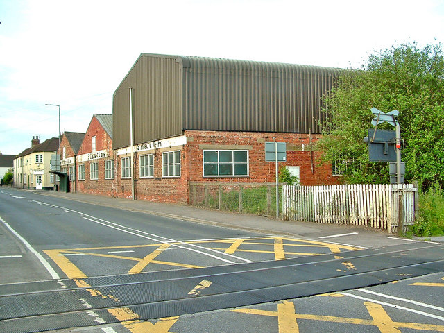 Snaith Clog Factory, Snaith, East Riding of Yorkshire, England. Clog factory was its original use. It is now a plastics factory